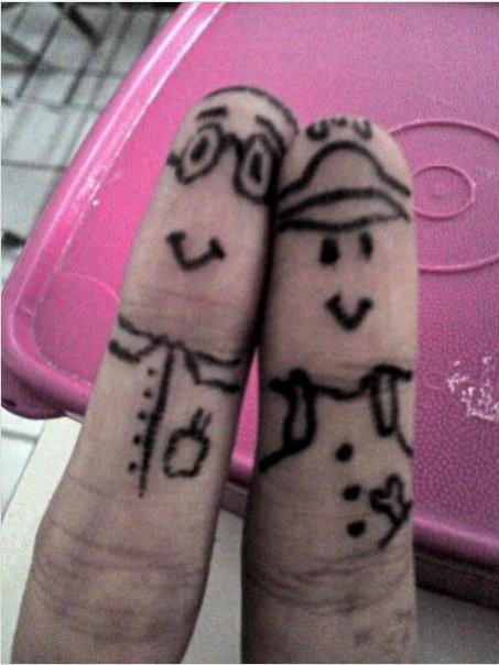 ohh....this is picture from my honey..